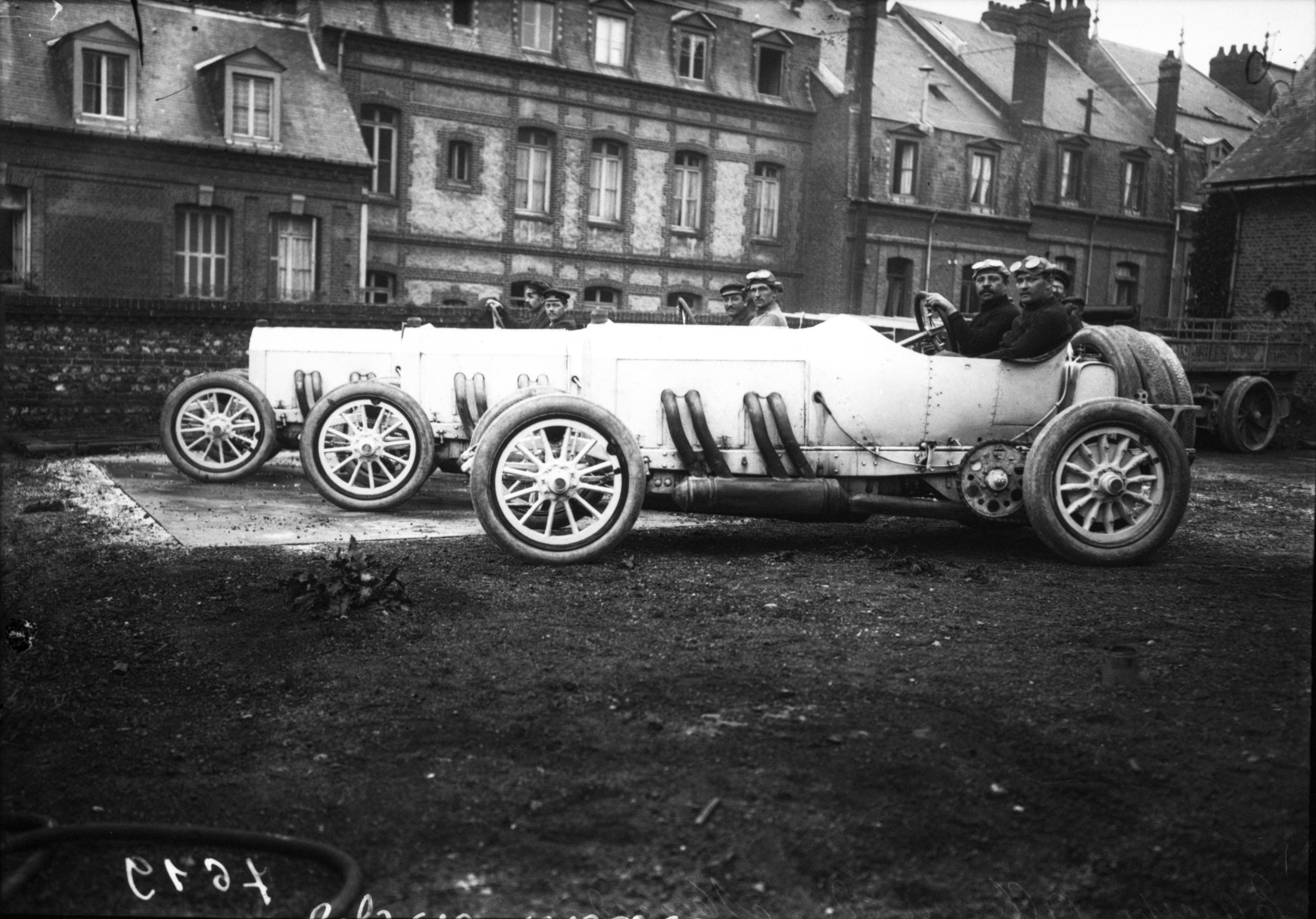 German Mercedes team (drivers Willy Pöge, Otto Salzer, and Christian Lautenschlager) at the 1908 French Grand Prix